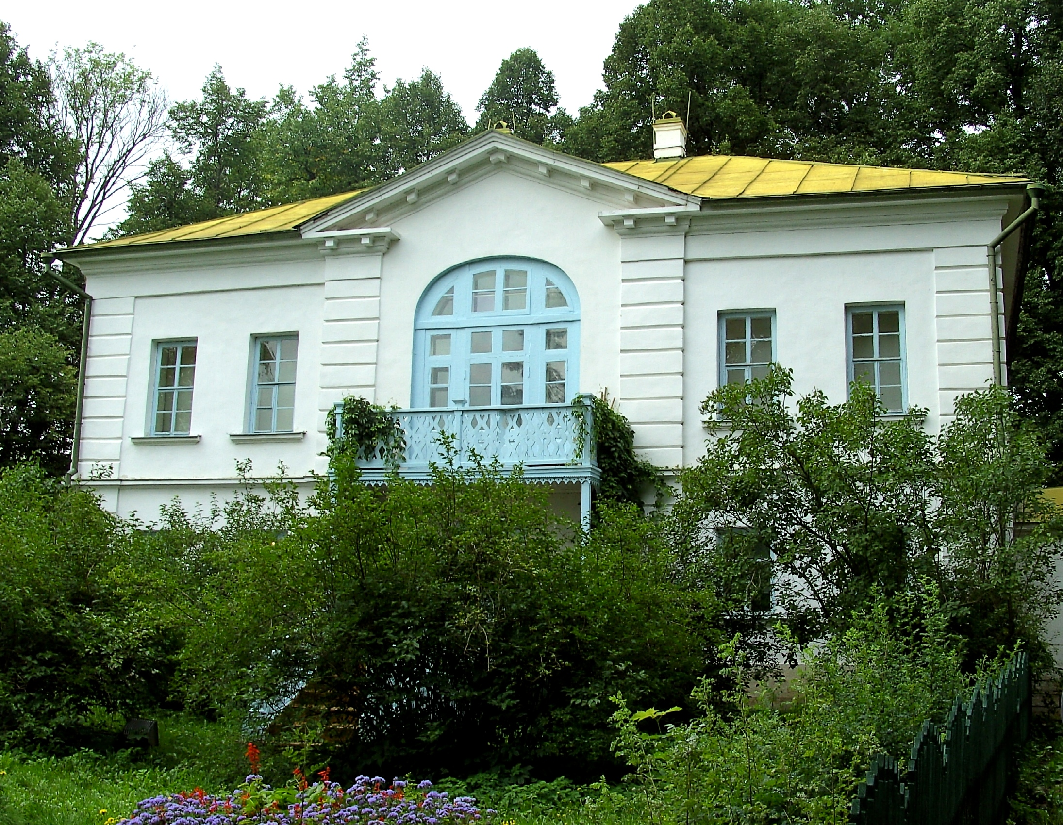 Yasnaya Polyana, the home of Leo Tolstoy.